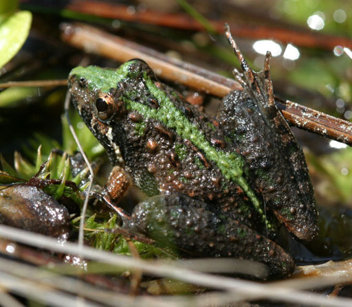 Southern Cricket Frog, Acris gryllus. Location: Holly Shelter Game Lands, Pender County, North Carolina, United States